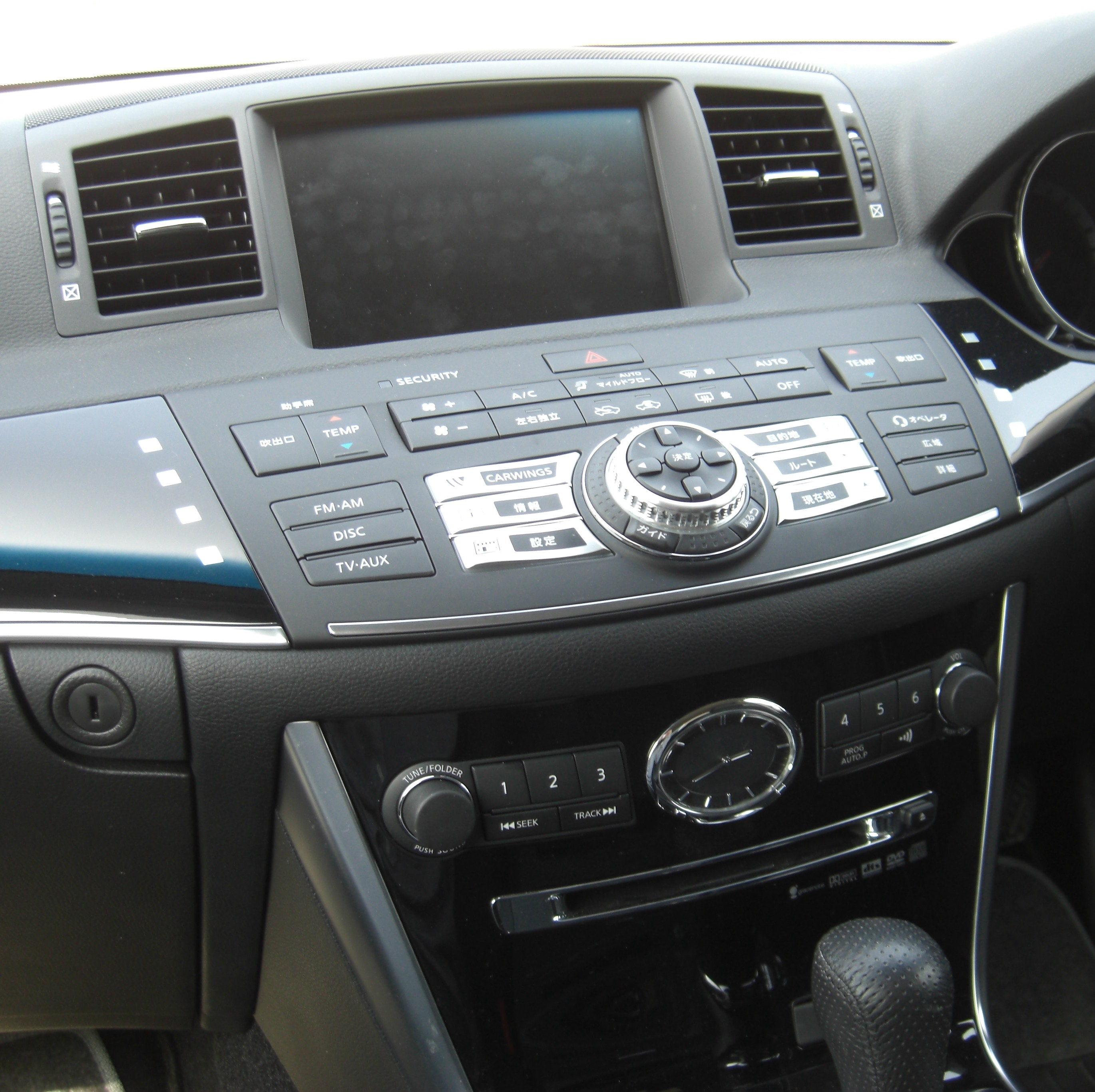 interior display of Nissan CarWings found in Nissan Fuga